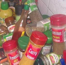 herbs